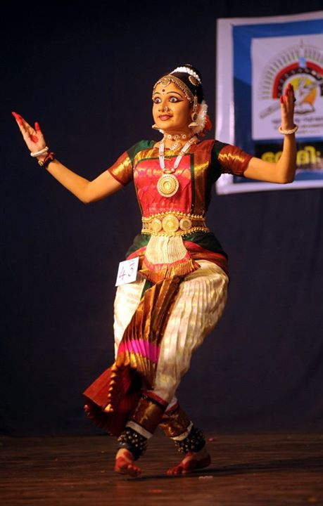 bharathanatyam